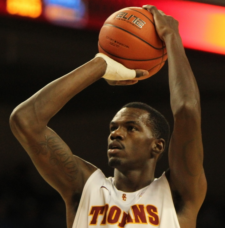 USC basketball player Dewayne Dedmon attempts a free throw in a game vs. rival UCLA.